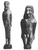 Statues found in the excavation of the Lapis Niger in the Roman Forum.